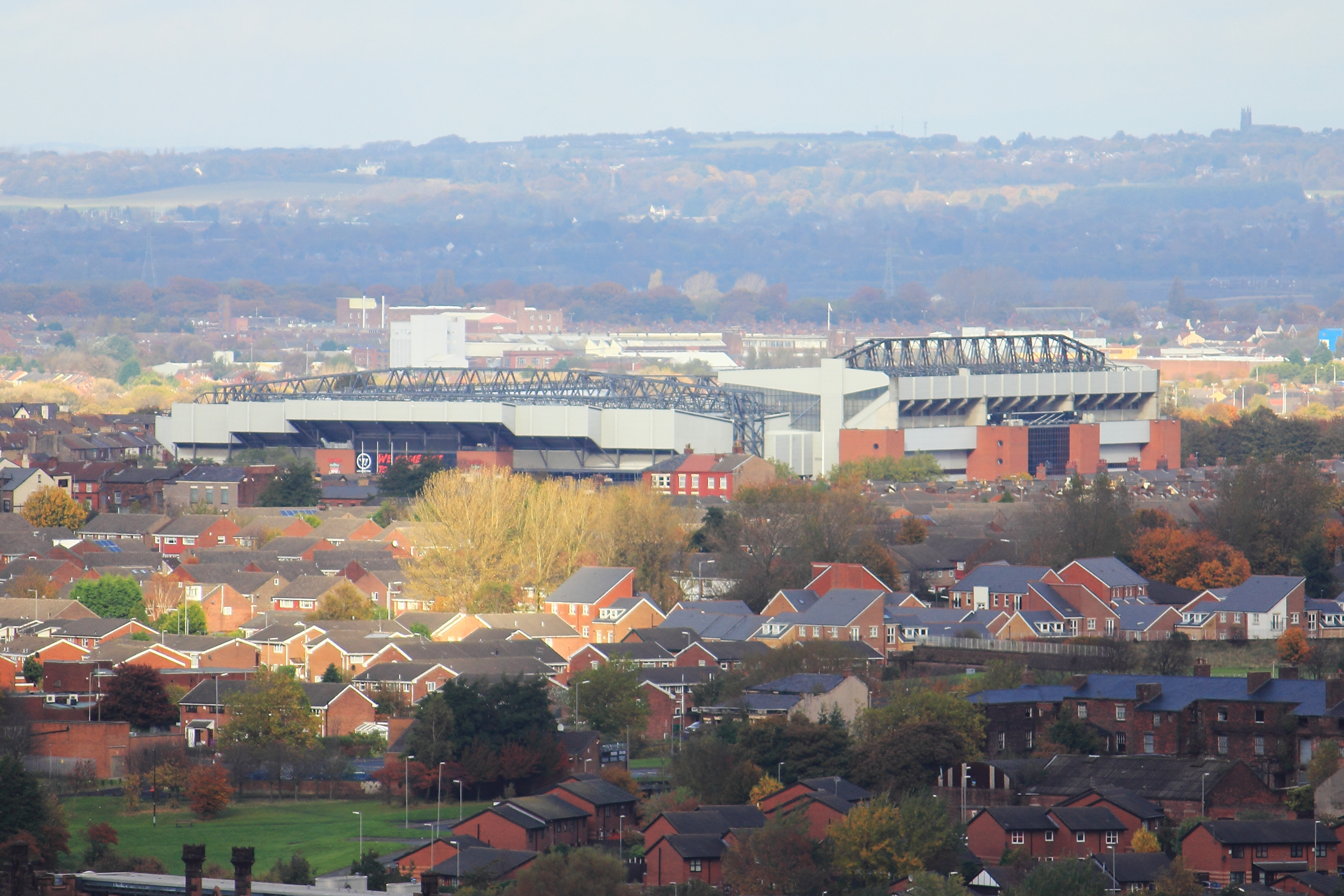 Liverpool FC's Anfield stadium, as viewed from Liverpool cathedral